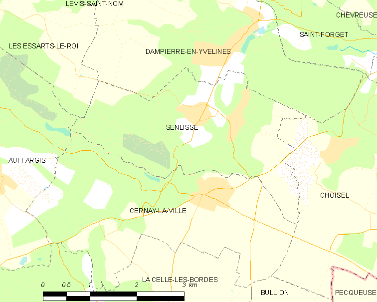 Map of French municipality Senlisse